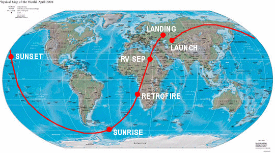 World Map from CIA World Fact Book. Reubenbarton added the orbital path info.